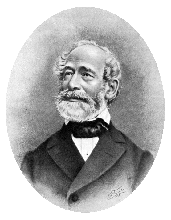 Engraving of Carl Zeiss, as published in Felix Auerbach's book Das Zeisswerk und die Carl-Zeiss-Stifftung in Jena, 1907.